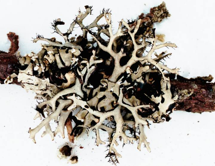 Everniastrum catawbiense (Degel.) Hale ex Sipman, 1986 Photograph of a herbarium specimen. E. catawbiense was growing on a twig along the Red Trail at the Humboldt Field Research Institute at Eagle Hill, Steuben, Washington County, Maine, USA; collected by E.C. Uebel, identified by Dr. D.H.S. Richardson (No. U-138, 11 Jun 2001). (Lat. 44o27.5' N, Long. 67o55.5' W)